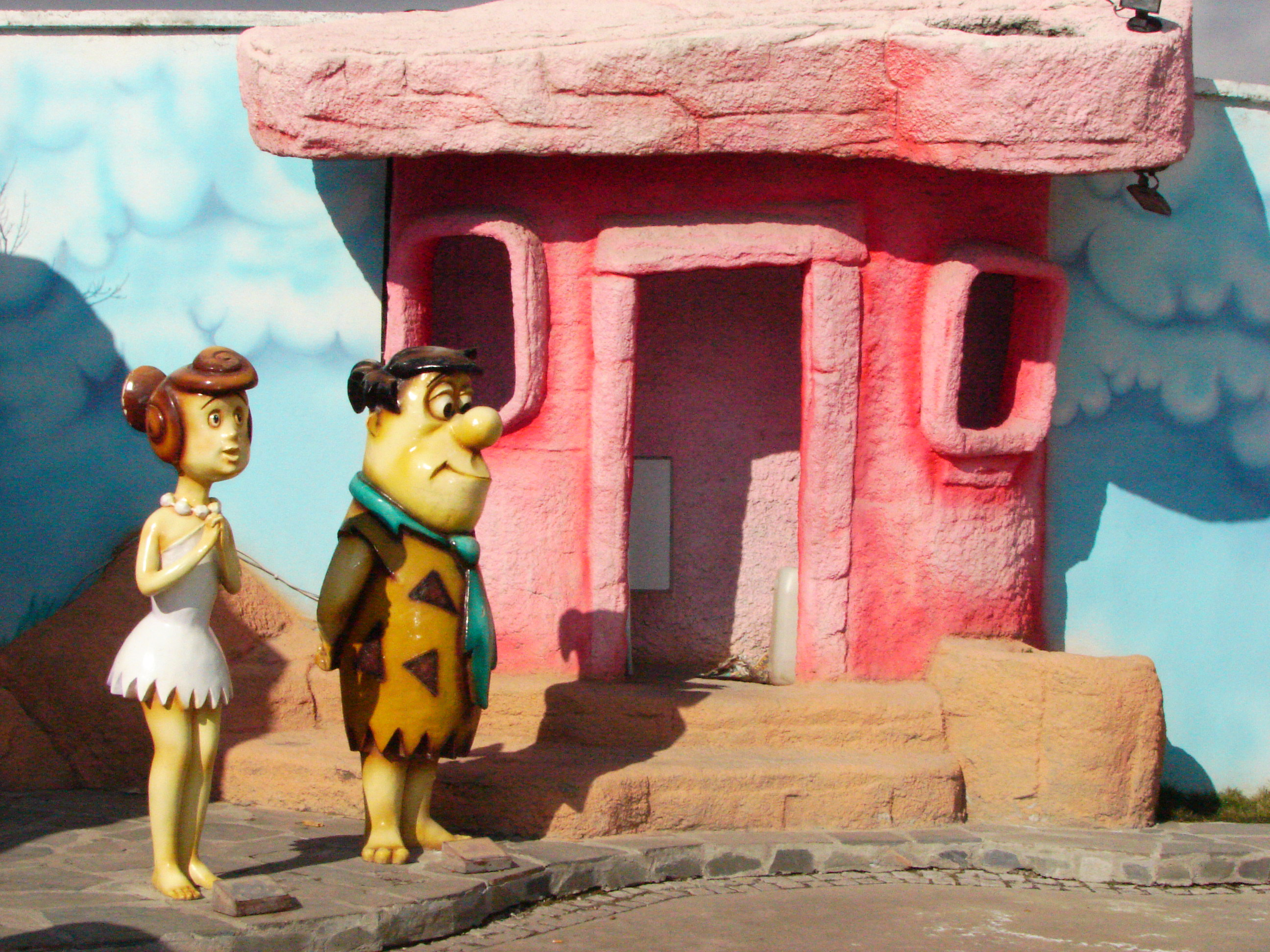 Fred and Wilma Flintstone figurines at the Ankara Public Amusement Park